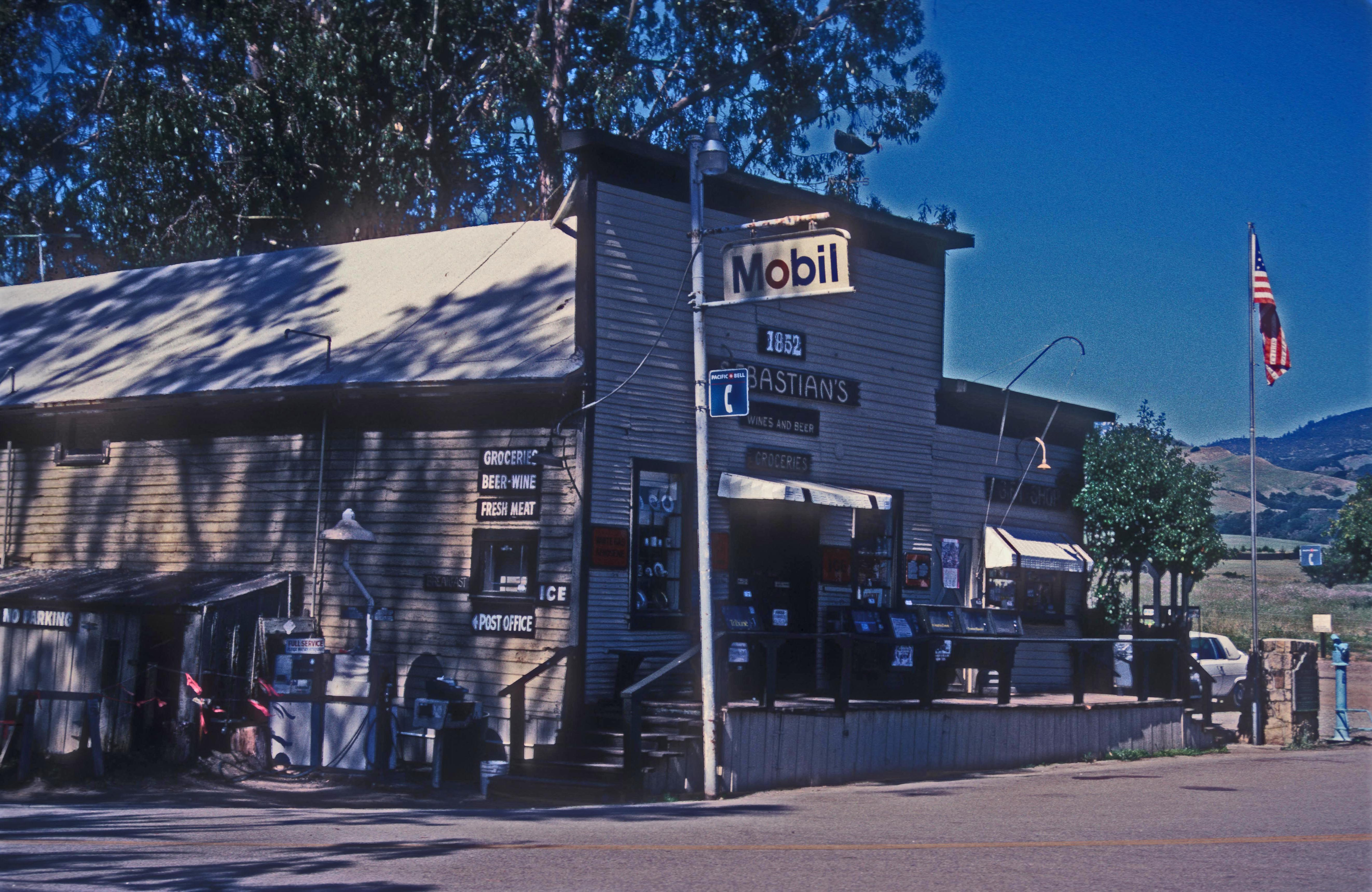 SEBASTIAN STORE (1989 VISIT) AT SAN SIMEON - OLDEST STORE IN NORTHERN SAN LUIS OBISPO COUNTY; BUILT IN 1852 AT WHALING POINT. INN MOVED IN 1878 TO ITS PRESENT LOCATION. STILL OPERATED BY THE SEBASTIAN FAMILY